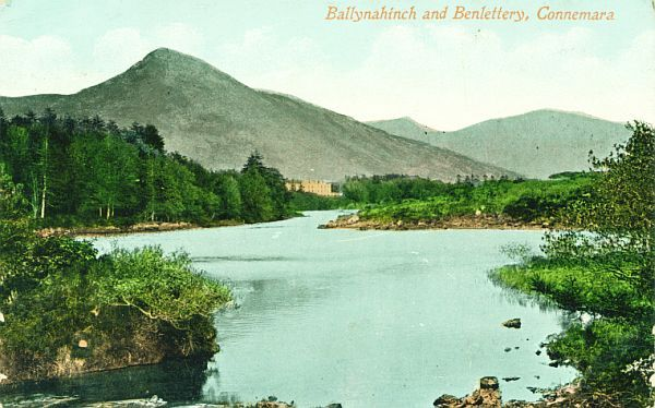 Picture Postcard with a 1912 postmark.